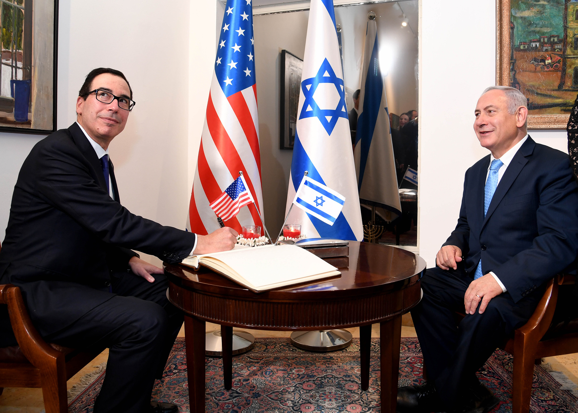 Embassy Dedication Ceremony